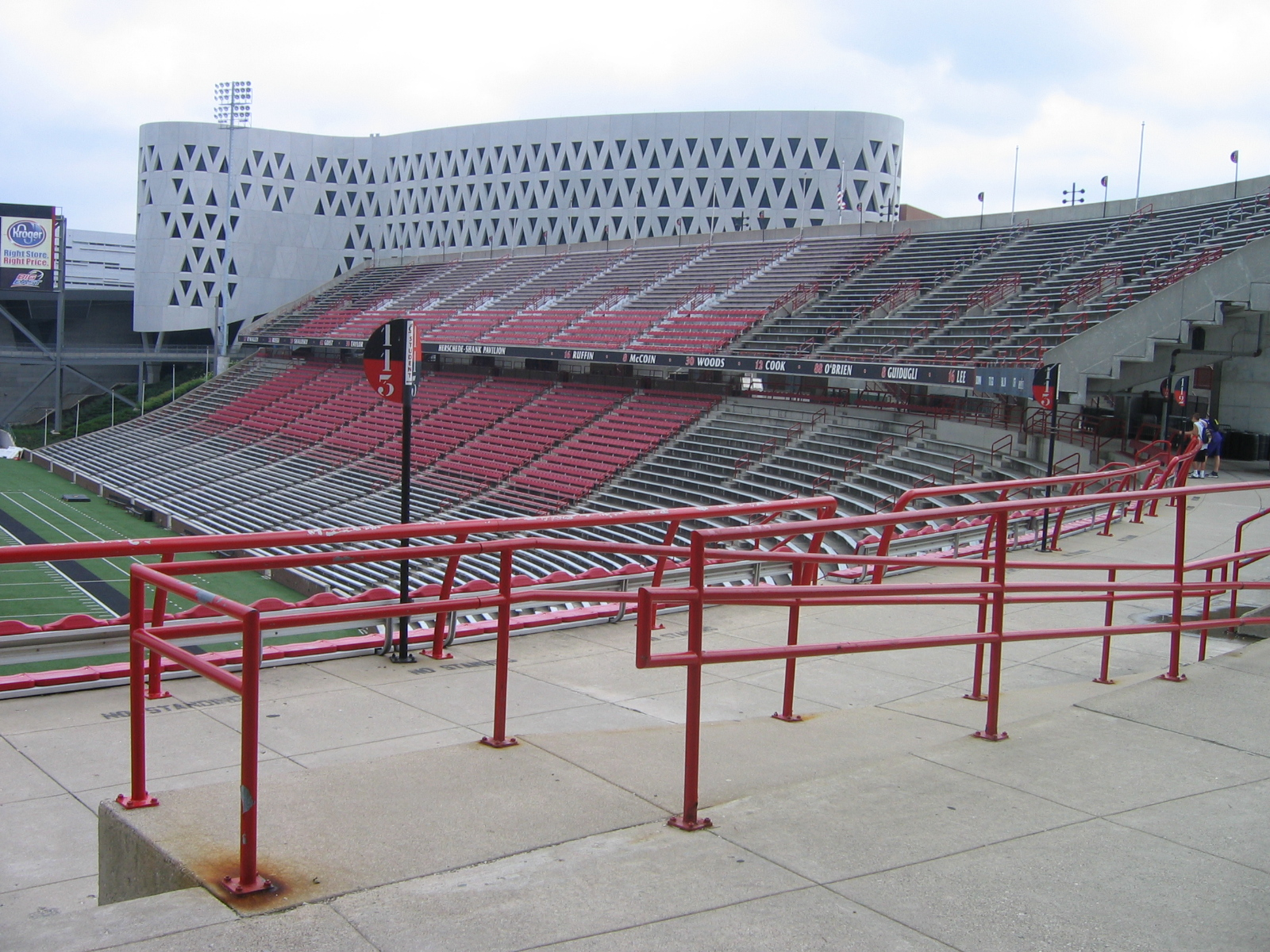 Football & Basketball Facilities U Cincinnati Football Stadium